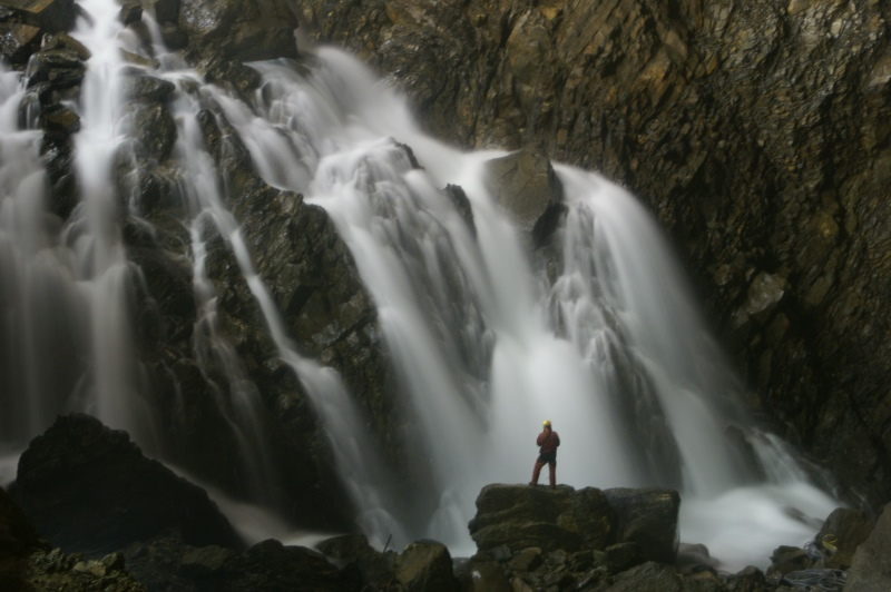 Waterfall in La Verna cave room